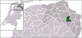 Locator map of Dutch municipalities in Groningen (LocatieMenterwolde.png)